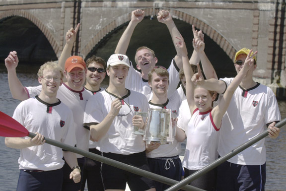 Kirkland House Boat Club (Harvard University, 2003) on dock after winning inter-House regatta.